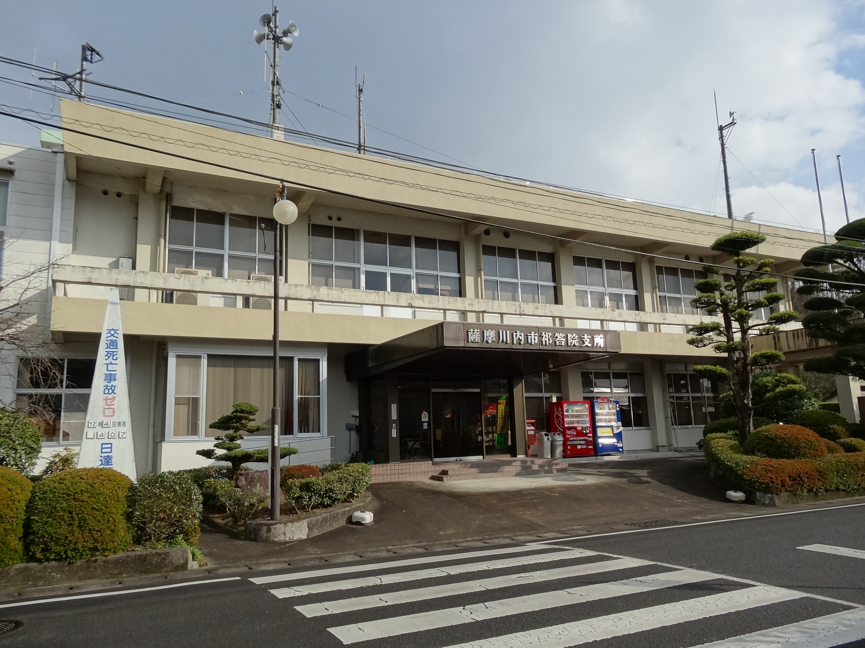 Satsumasendai City Office Kedoin Branch, former Kedoin Town Office (December, 2012 - Kagoshima Prefecture, Japan)